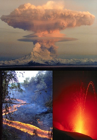 Mosaic of some of the eruptive structures formed during volcanic activity: a Plinian eruption column, Hawaiian pahoehoe flows, and a lava arc from a Strombolian eruption. MtRedoubtedit1 Reunion 2004 1.jpg Stromboli Eruption.jpg